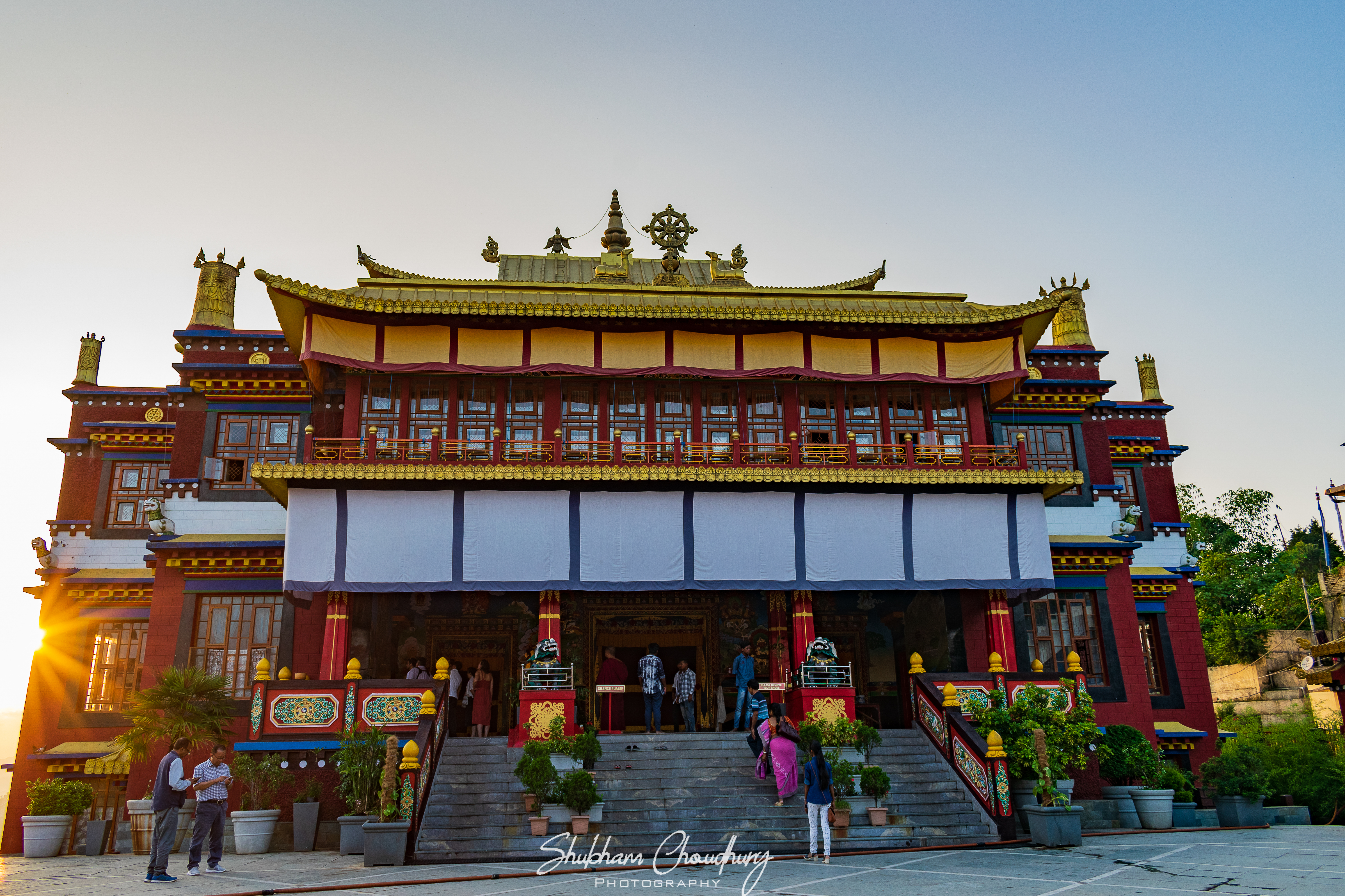 Bokar Monastry in Mirik, Highest point of Mirik Town